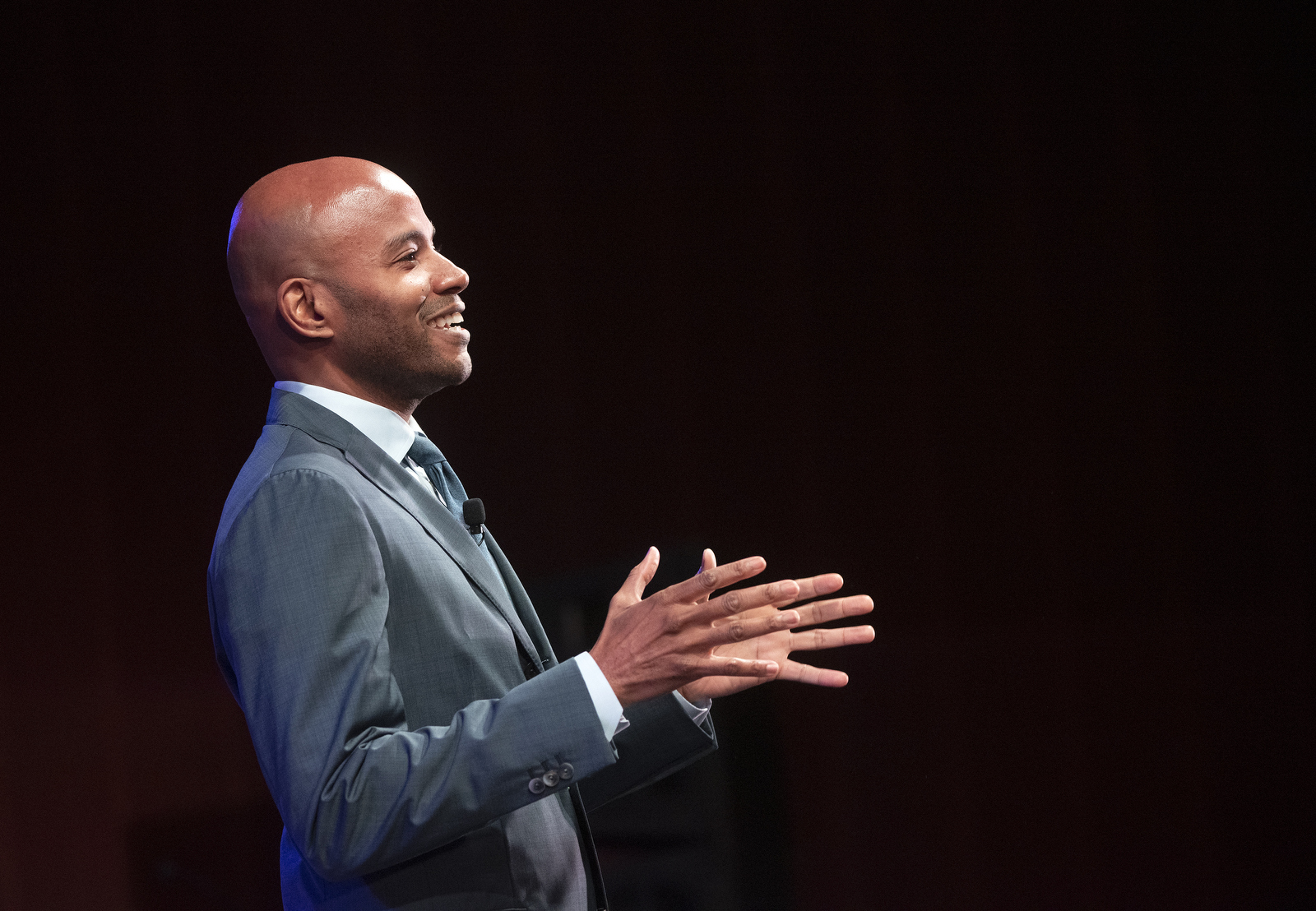 Peniel E. Joseph, founding director of the Center for the Study of Race and Democracy at the LBJ School of Public Affairs provides his views on social justice during The Summit on Race in America on Tuesday, April 9, 2019 at the LBJ Presidential Library. The Summit on Race in America runs from April 8-April 10 at the LBJ Library. 04/09/2019 LBJ Library photo by Jay Godwin